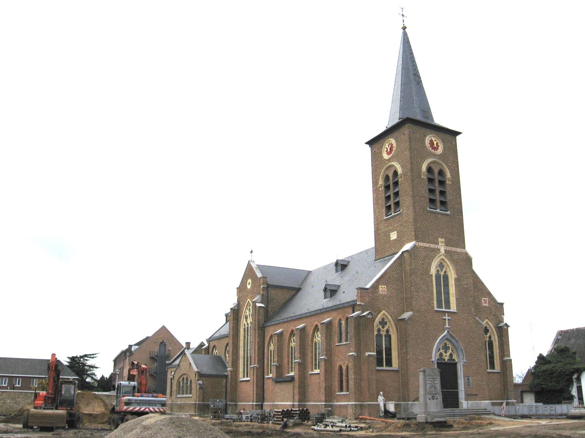 Church of Saint Martin in Kinrooi, Limburg, Belgium